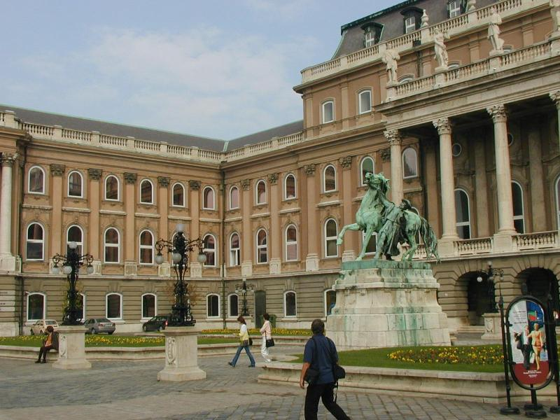 Royal Palace, Budapest -- by User:Jpatokal